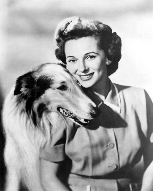 Photo of Jan Clayton as Ellen Miller, Jeff's mother, from the television program Lassie.